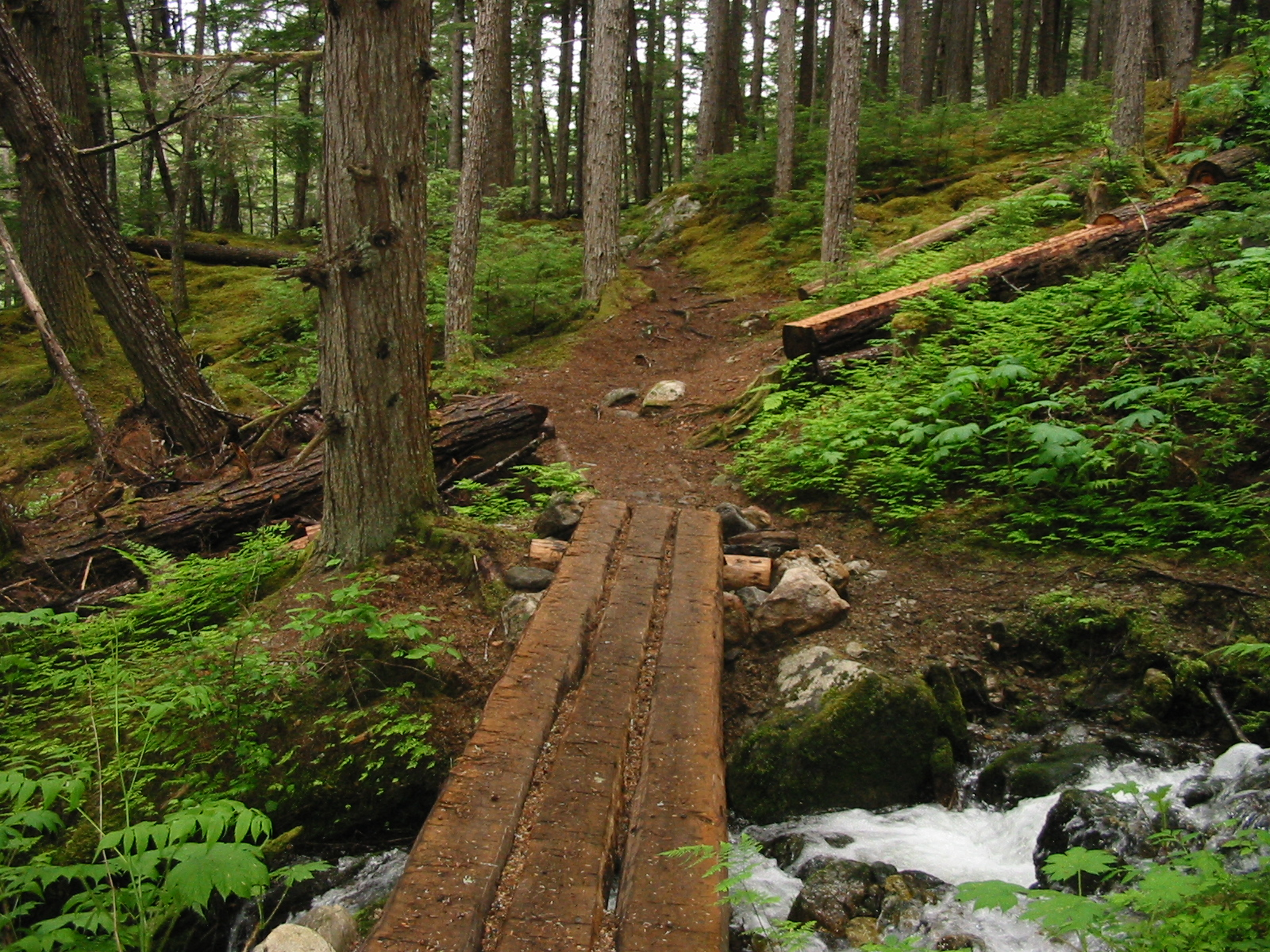 Chilkoot Trail on the US Side of the trail.